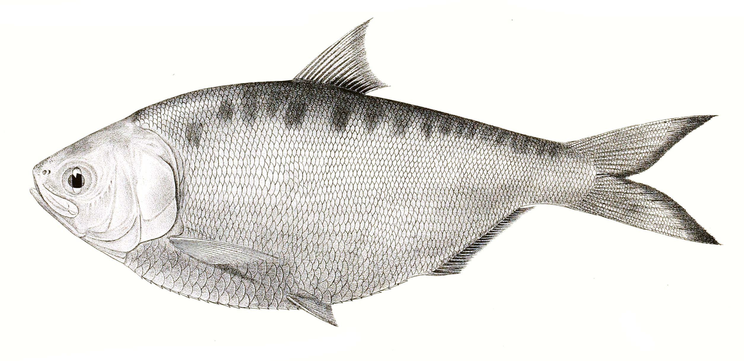 Gudusia variegata syn. Clupea variegataThe species names / identity need verification - original names from plate are included here. The original plates showed the fishes facing right and have been flipped here. Clupea variegata